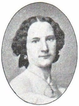 Swedish ballet dancer Augusta Arrhenius. Image from "Svenskt porträttgalleri / XXI. Tonkonstnärer och sceniska artister (biografier af Adolf Lindgren & Nils Personne)"